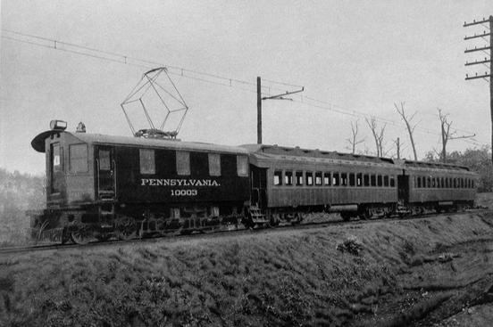 Pennsylvania Railroad PRR Odd D 10003, an experimental 4-4-0 electric locomotive built in 1909.